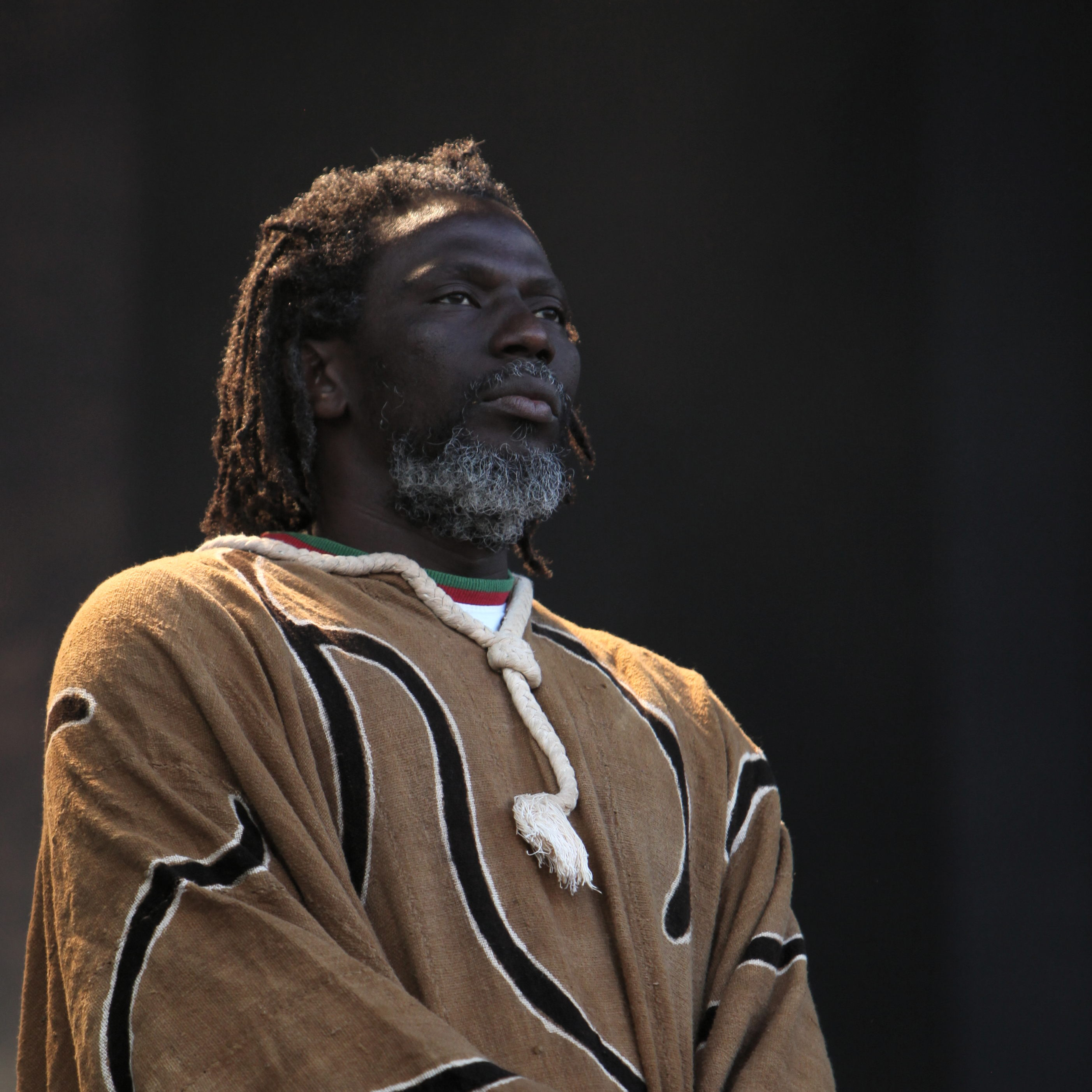 Tiken Jah Fakoly at the Eurockéennes de Belfort 2011 The making of this document was supported by Wikimedia CH. (Submit your project!) For all the files concerned, please see the category Supported by Wikimedia CH.